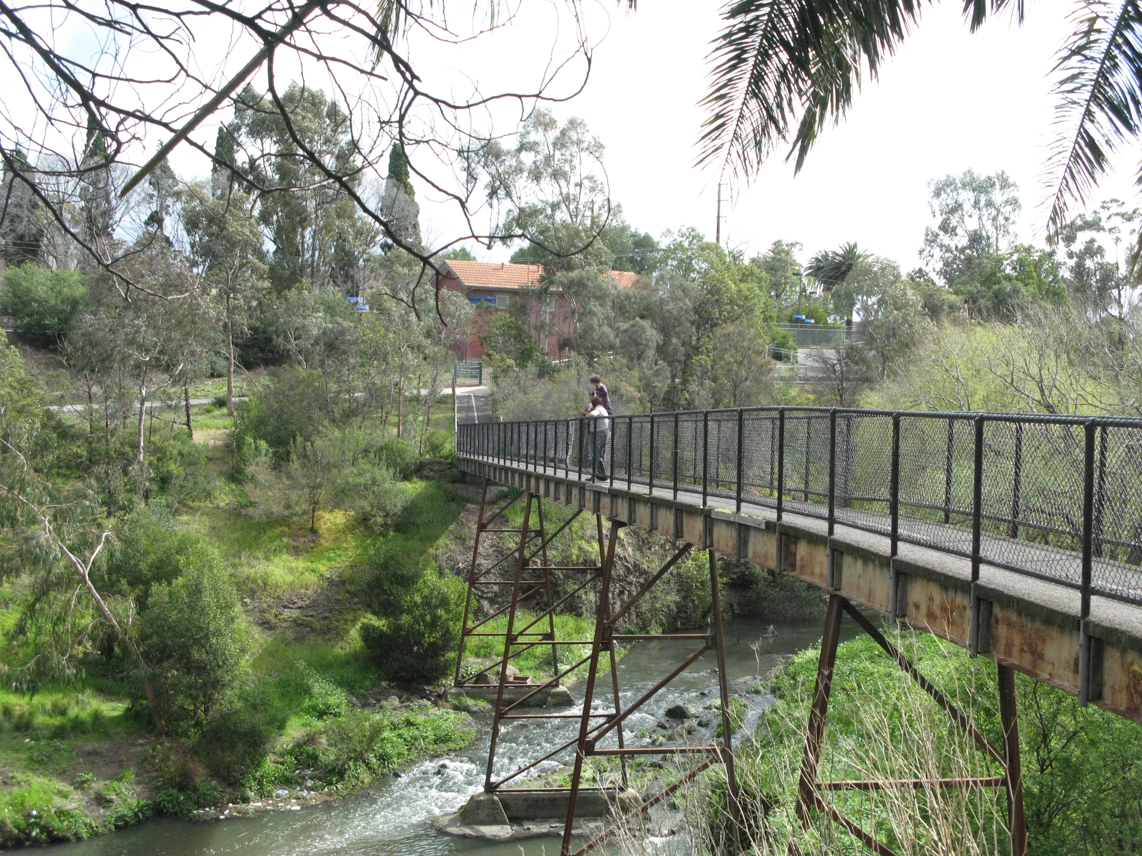 The Merri Footbridge over the Merri Creek in Melbourne, Australia. Photo taken by myself in December 2009.